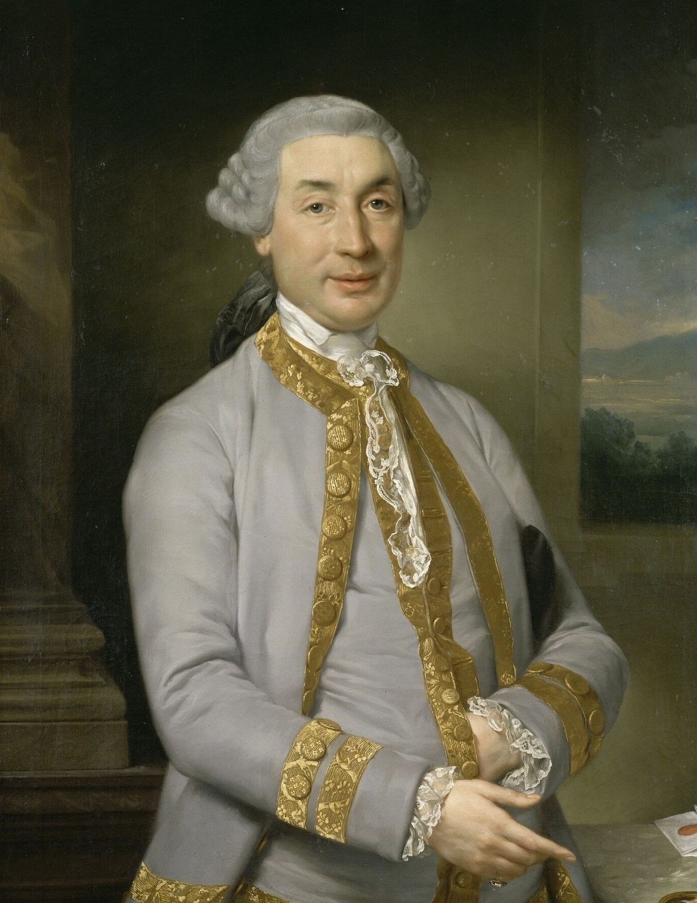 Portrait of a man, presumably Carlo Maria Buonaparte (1746-1785), father of Napoleon Bonaparte. This is one of few portraits of the father of Napoleon. In this half–length posthumous portrait, Carlo Maria (1746-1785) is dressed as a gentleman of the Ancien Régime with powdered wig and a coat laced with gold.